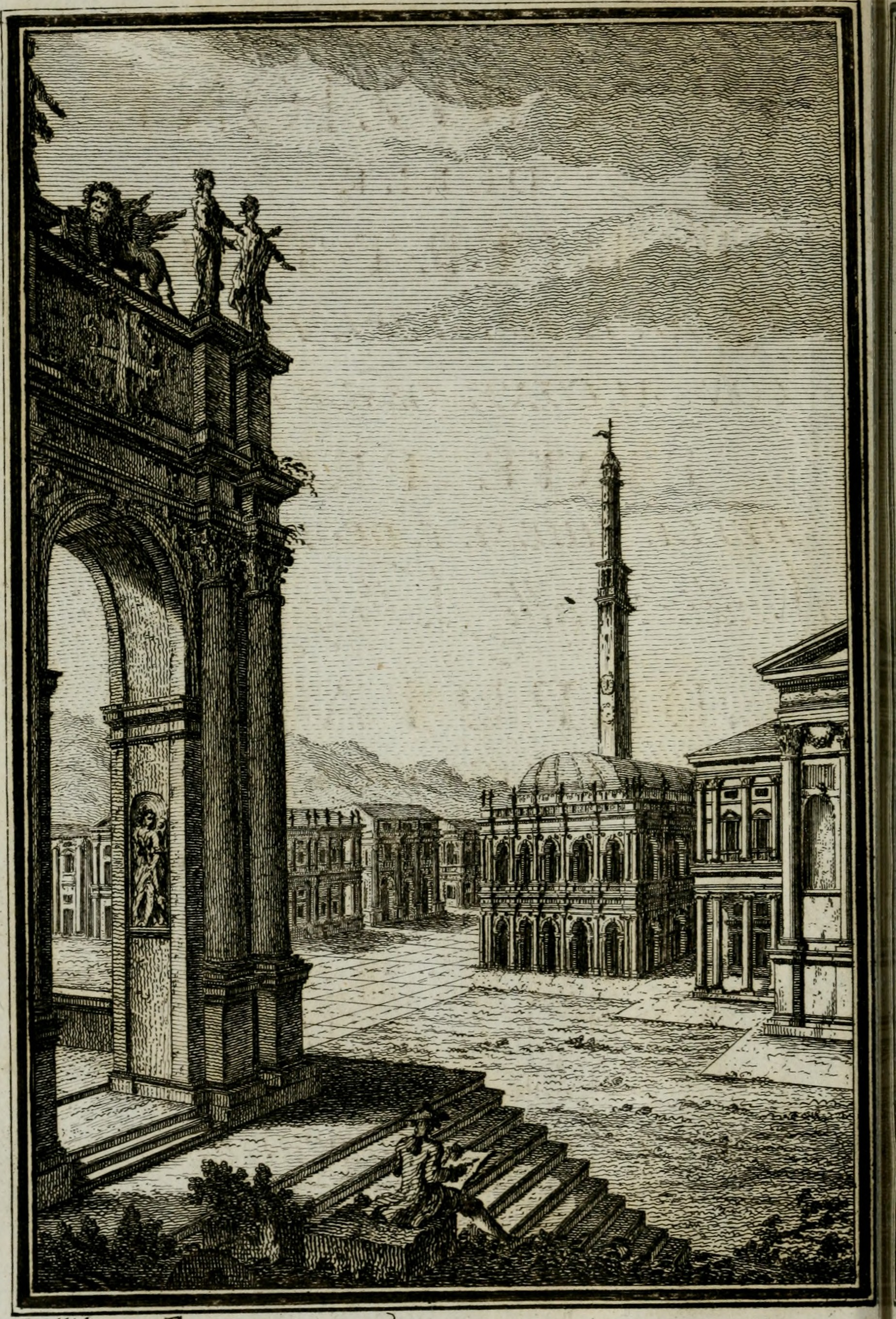 Title: Descrizione delle architetture, pitture e scolture di Vicenza, con alcune osservazioni Year: 1779 (1770s) Authors: Vendramini Mosca, Francesco Dall'Acqua, Cristoforo, 1734-1787 Subjects: Architecture Art, Italian Publisher: In Vicenza : Per Francesco Vendramini Mosca Text Appearing Before Image: ' Text Appearing After Image: DESCRIZIONE ARCHITET TURE, PITTURE E SCOLTI/HE DI VICENZA,CON ALCUNE OSSEKYAZIONI, PARTE PRIMA, DELLE CHIESE E DEGLI OBATORJ.luxta Olii /ìoaui/j. tnu non DEPUTATI DELLA MAGNIFICA CITTÀdescrizionedelle00vend